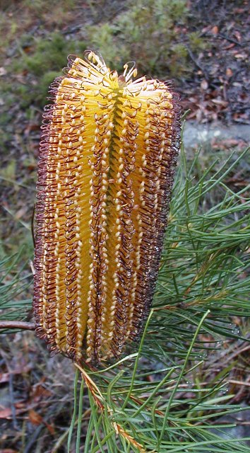 Banksia spinulosa (dark styles), Georges River National Park (near Sydney) June 2005 Photo Cas Liber